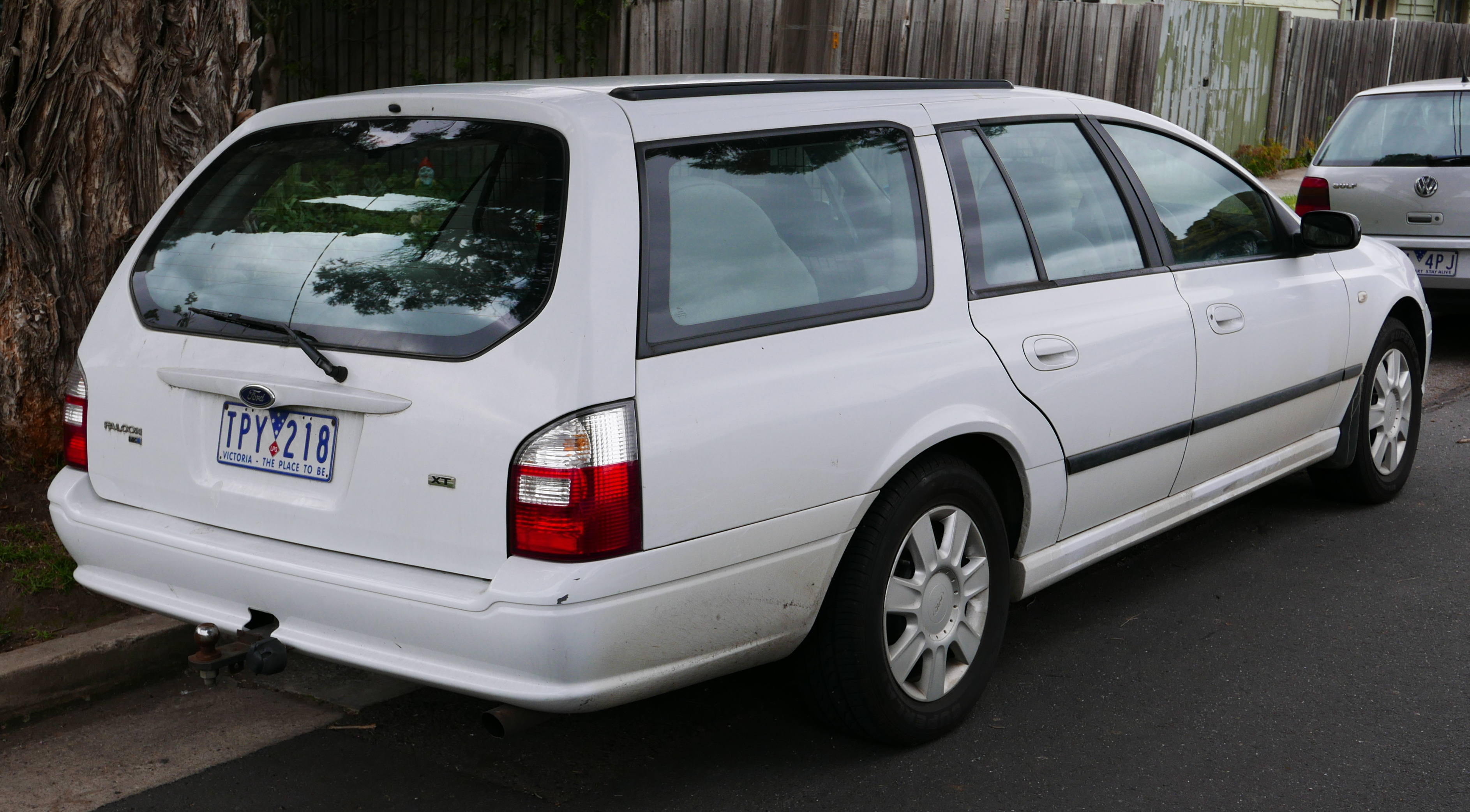 2005 Ford Falcon (BA II) XT station wagon. Photographed in Northcote, Victoria, Australia. Vehicle registration enquiry resultsJurisdictionVictoriaRegistrationTPY218Chassis code6FPAAAJGWA5G96116Engine codeJGWA5G96116Compliance date2005-09Year of manufacture2005